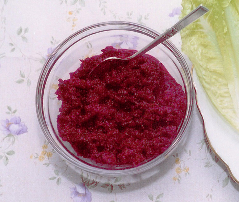 Chrain (horseradish) with red beet